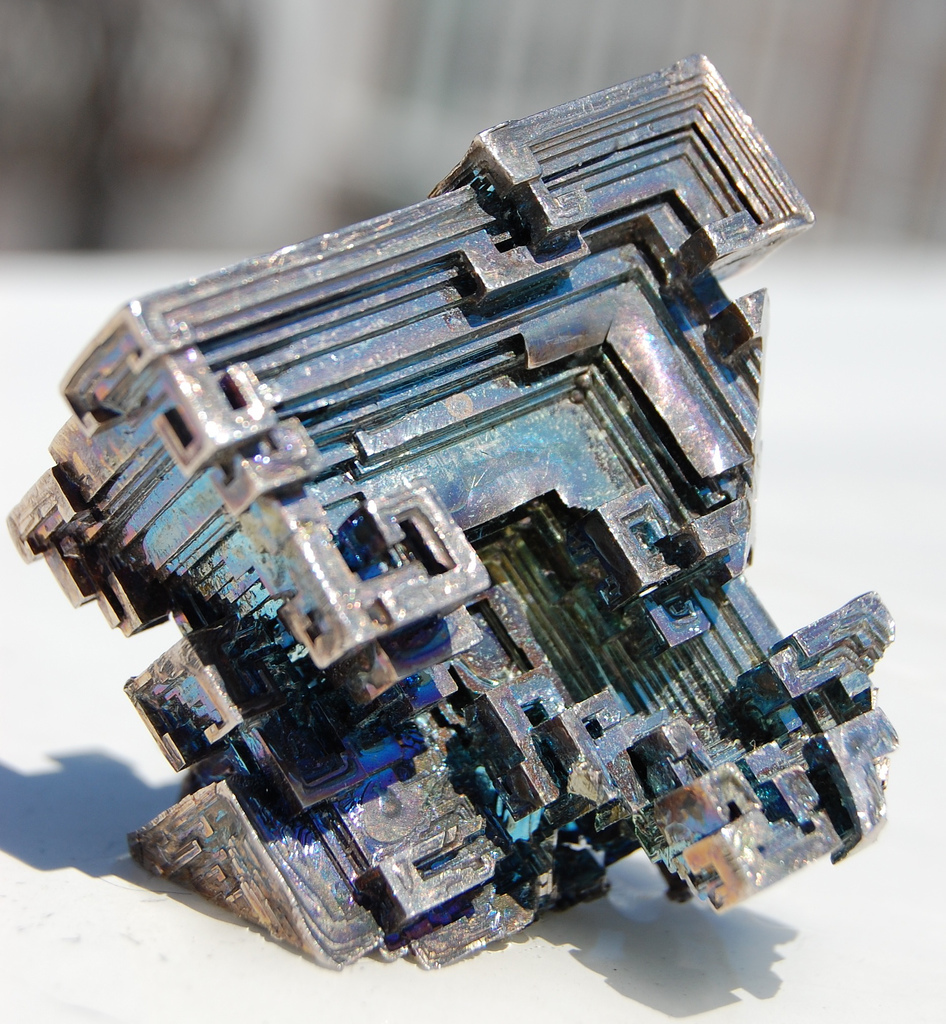 bismuth crystal